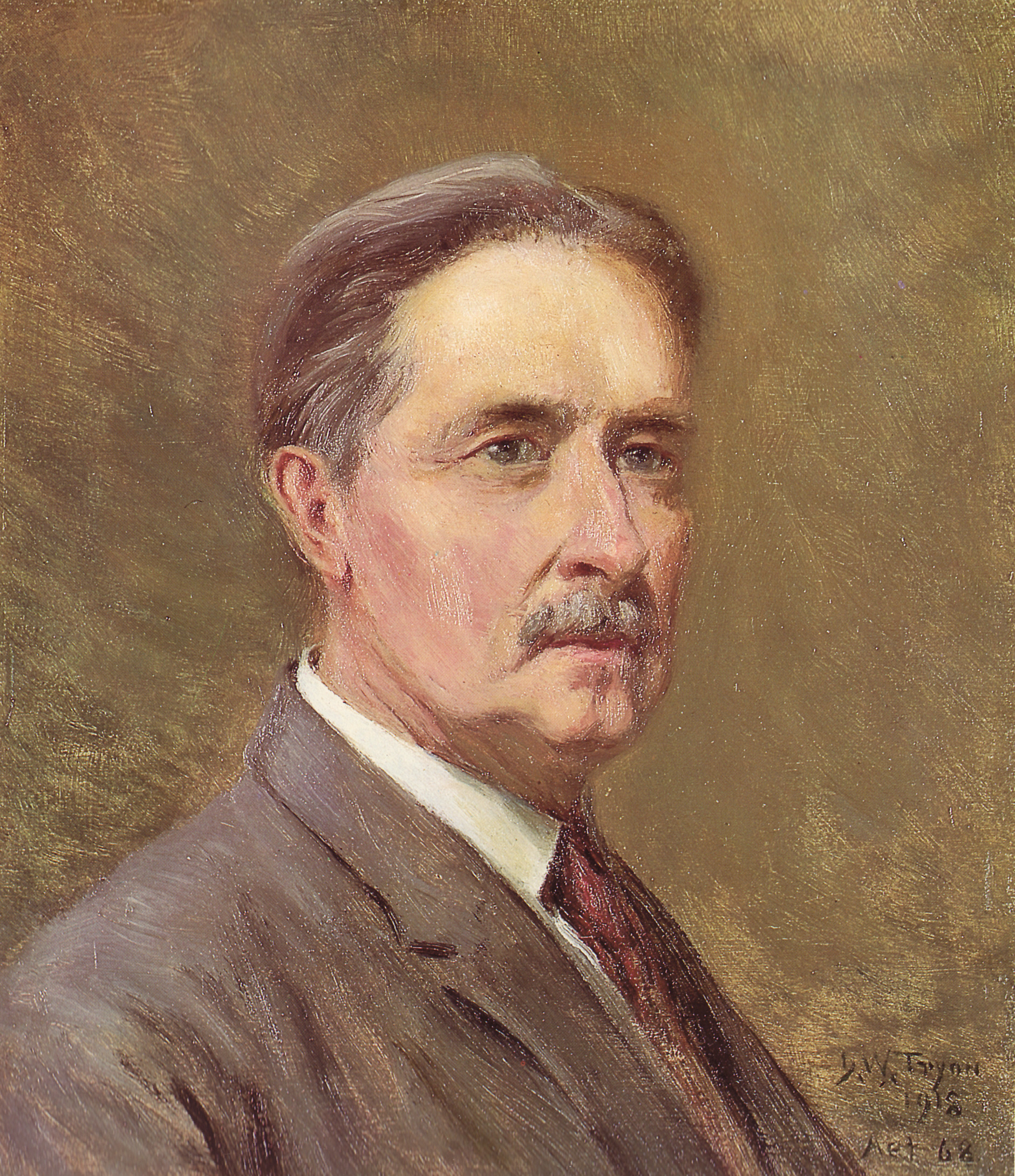 Painting Portrait of Himself by Dwight William Tryon